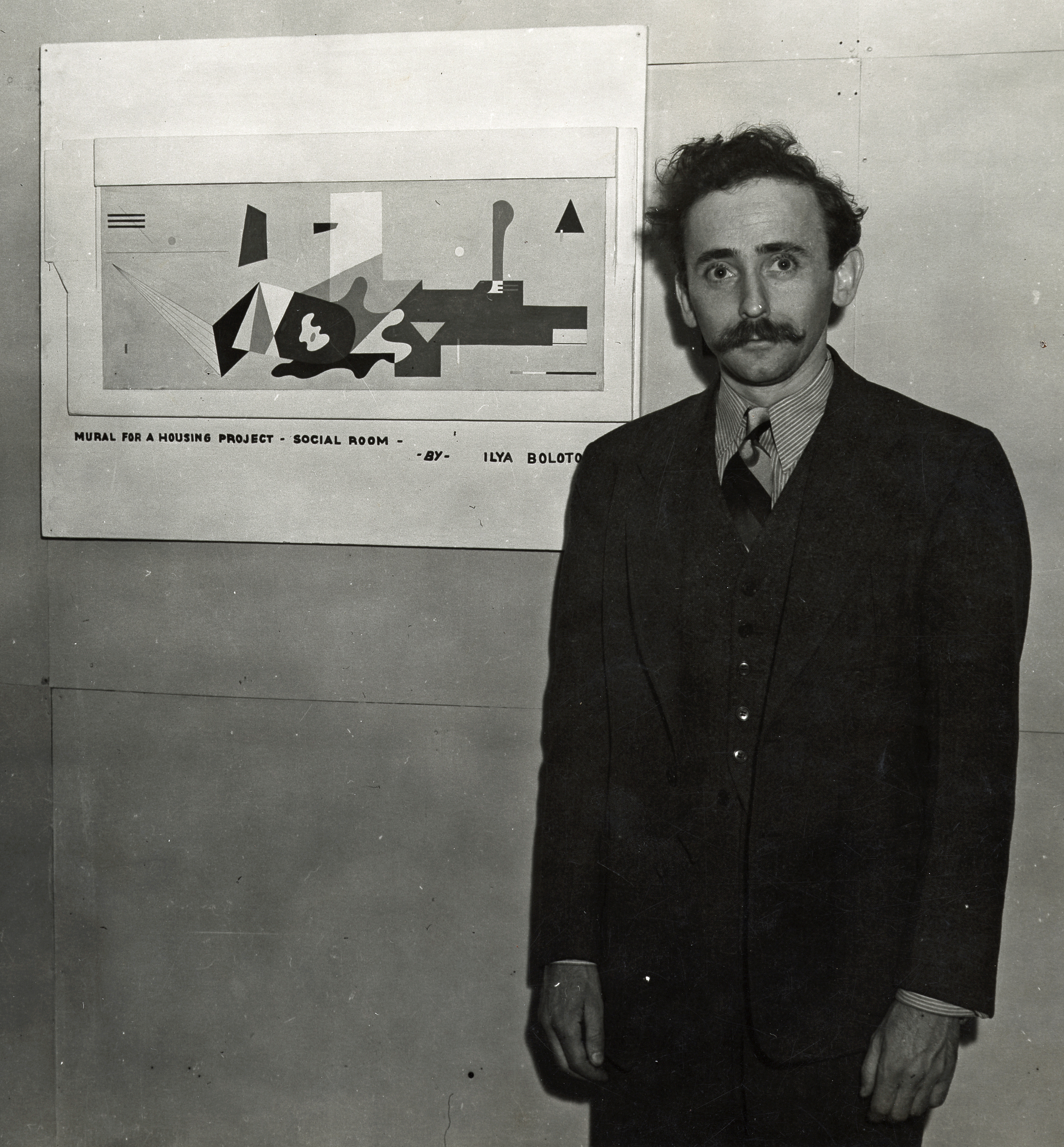 Bolotowsky standing by his mural during the opening of Mural Show at the Federal Art Gallery. Identification on verso (handwritten and stamped): "Federal Art Project W.P.A.; Photographic Division; 225 East 42nd Street; New York City Opening of Mural Show Fed. Art Gallery; Location: 225 W.57 St.; Date: 5/25/38; Negative No.: 3014-11; Photographer: Mipaas."